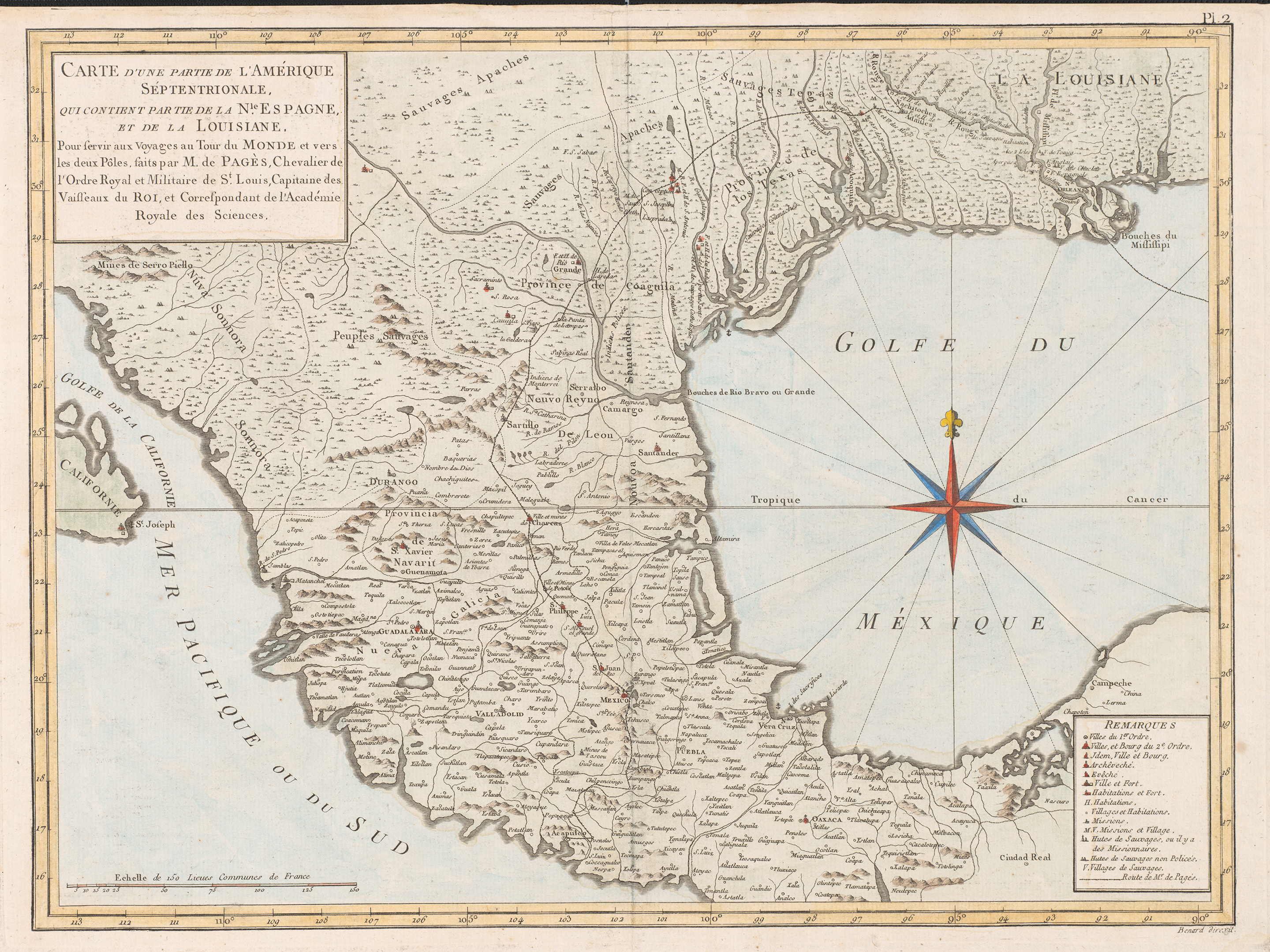 This map illustrated the travels of Pierre Marie Francois, Vicomte de Pagès (1748-1793), a French naval officer who crossed what is now Texas and Mexico on the first part of a trip around the world. Pagès slipped into New Spain despite Spanish government restrictions on foreigners traveling in their colonies, and although he claimed his motives were scientific, he may have been acting as a spy. After his return to France, he recorded his memories of the trip in the book Voyages autour du monde (Paris, 1782) that included several maps compiled by "Bernard" who was presumably an engraver or publishing agent. The map here was based upon the author's recollections and available maps of Mexico. These probably included maps by Bellin and Bonne and, undoubtedly, Spanish scholar Alzate y Ramirez's 1768 map of New Spain, which had recently been published in Paris by the Académie des Sciences. The map shows the route of Pagès' travels between 1767 and 1768: Leaving Santo Domingo (prior to which he had sailed from Rochefort, France), he went to New Orleans and to Natchitoches in Spanish L[o]uisiana by way of the Mississippi and Red Rivers. From there he crossed what is now Texas along the Camino Real (Old San Antonio Road) and entered into what is present Mexico at Laredo. The map places three missions — Concepción, San José, and La Espada — along the San Antonio River and the fort or presidio of La Bahia and missions around it along the Guadalupe. From Laredo Pagès passed through Monterrey, Saltillo, Charcas, San Luis Potosi, San Felipe (Guanajuato), Mexico City, Cuernavaca, and Chilpancingo before heading westward on across the Pacific from Acapulco. Pagès' book soon appeared in an English translation Travels Round the World: in the years 1767, 1768, 1769, 1770, 1771 (2 vols.; London: J. Murray, 1791) — one of the first books on Texas in English.